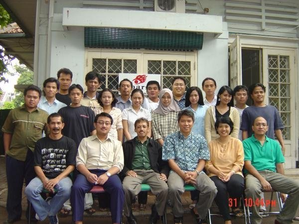 Last picture that been taken two day before Munir Said Thalib SH. Munir died of arsenic poisoning on a flight to Schiphol Netherlands